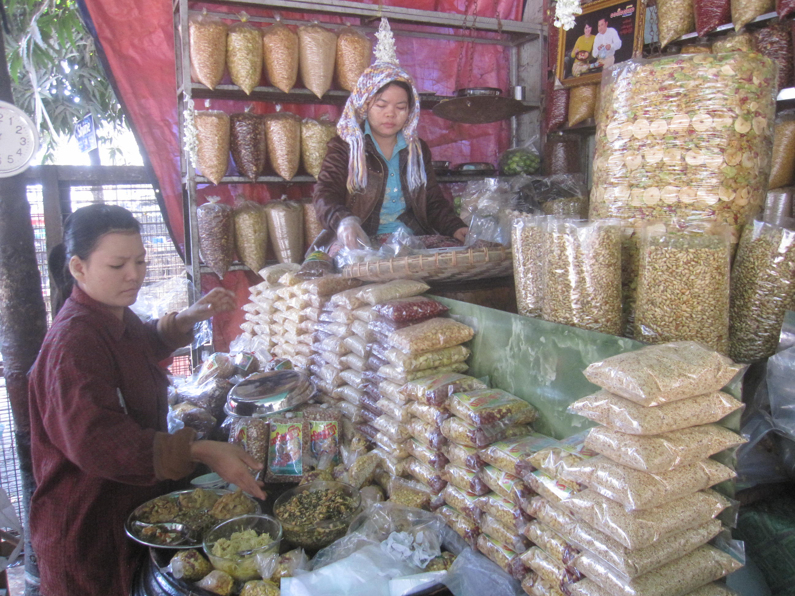 A popular lahpet stall in Mandalay